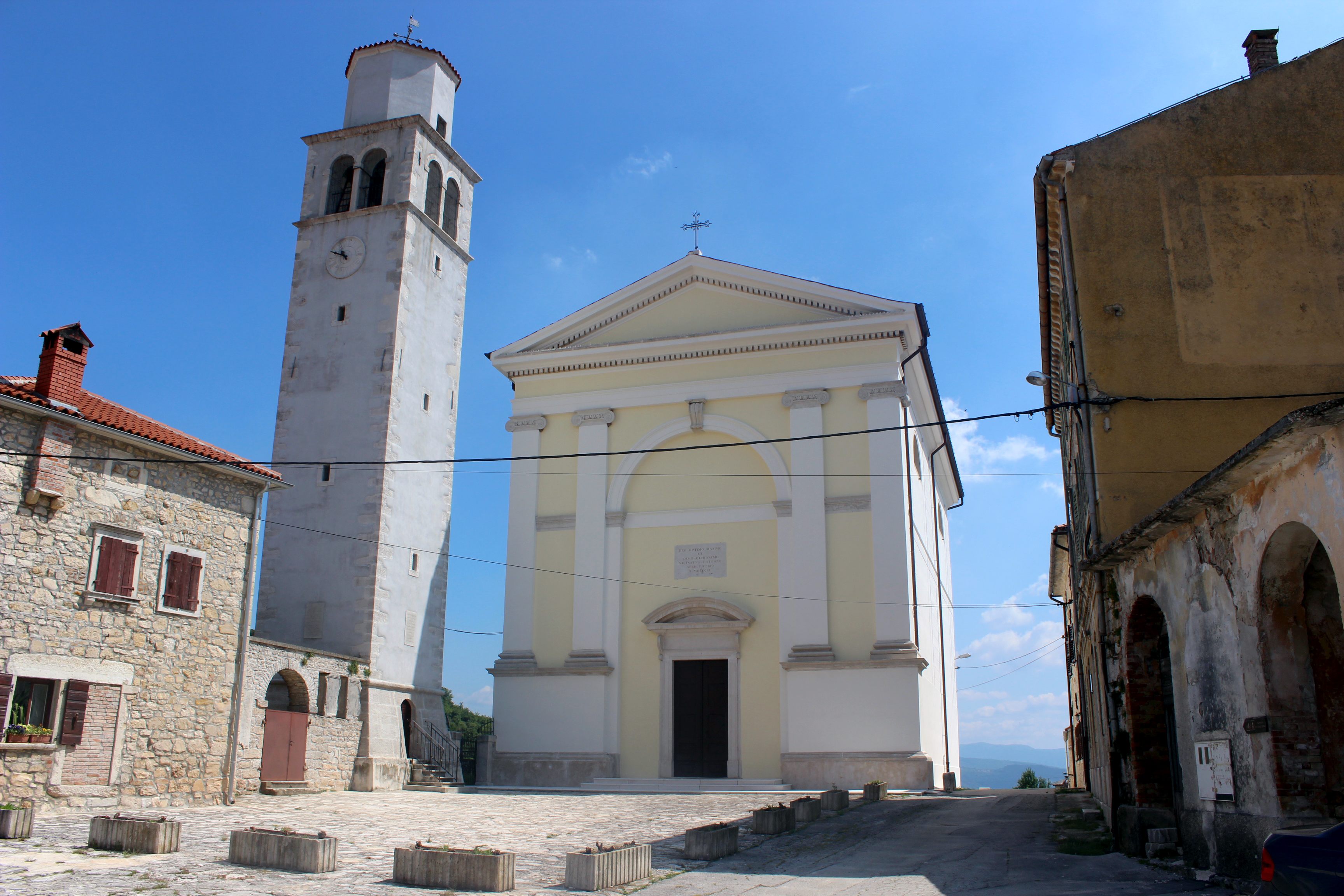 The Parish Church of Saint Jerome (Župna crkva Sveti Jeronima), with Bell tower, in Vižinada, Croatia